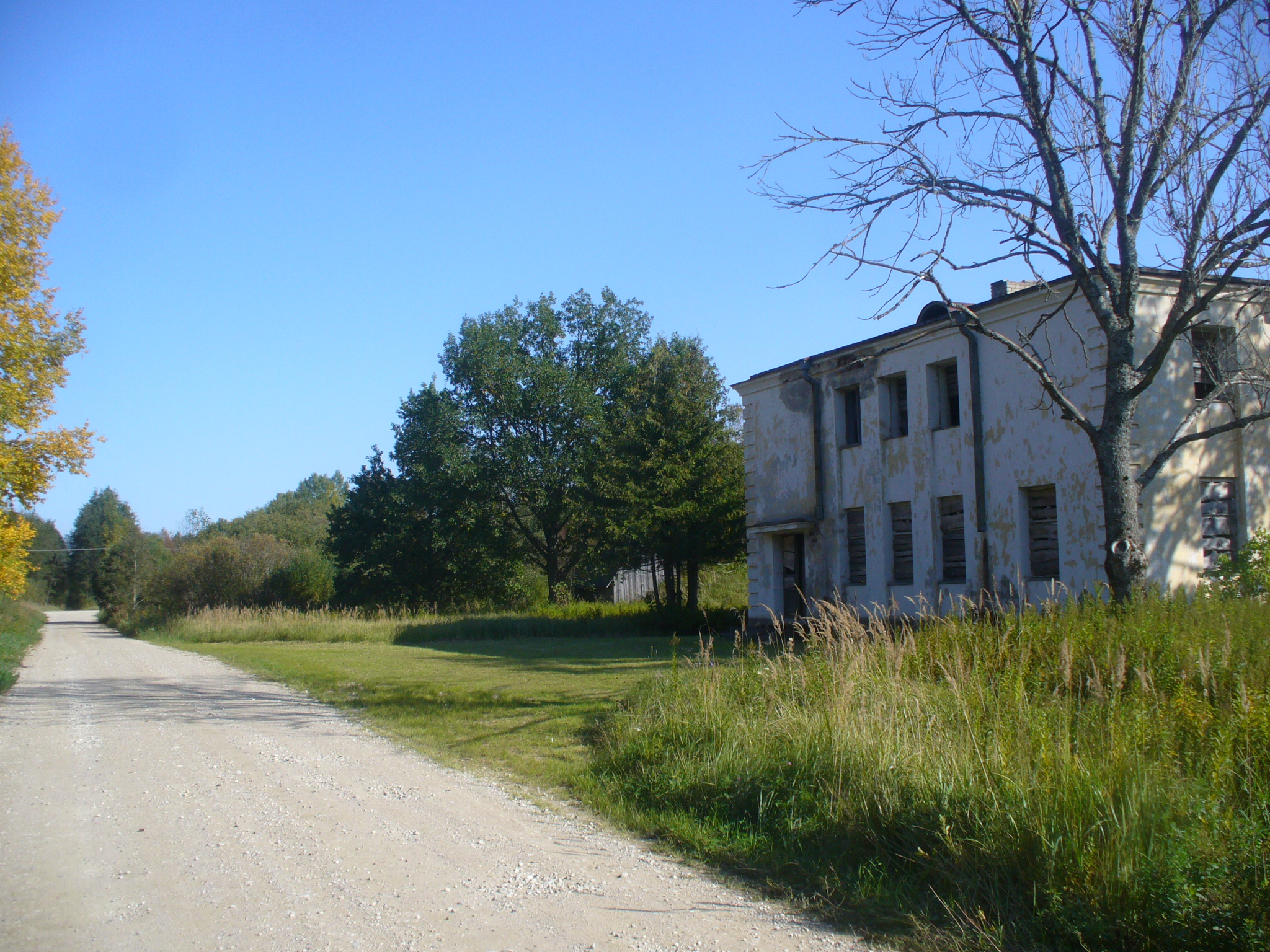 Tuudi old railway station in 2008. Old Rapla-Virtsu railway embankment seen on the left. Lääne county, Estonia.